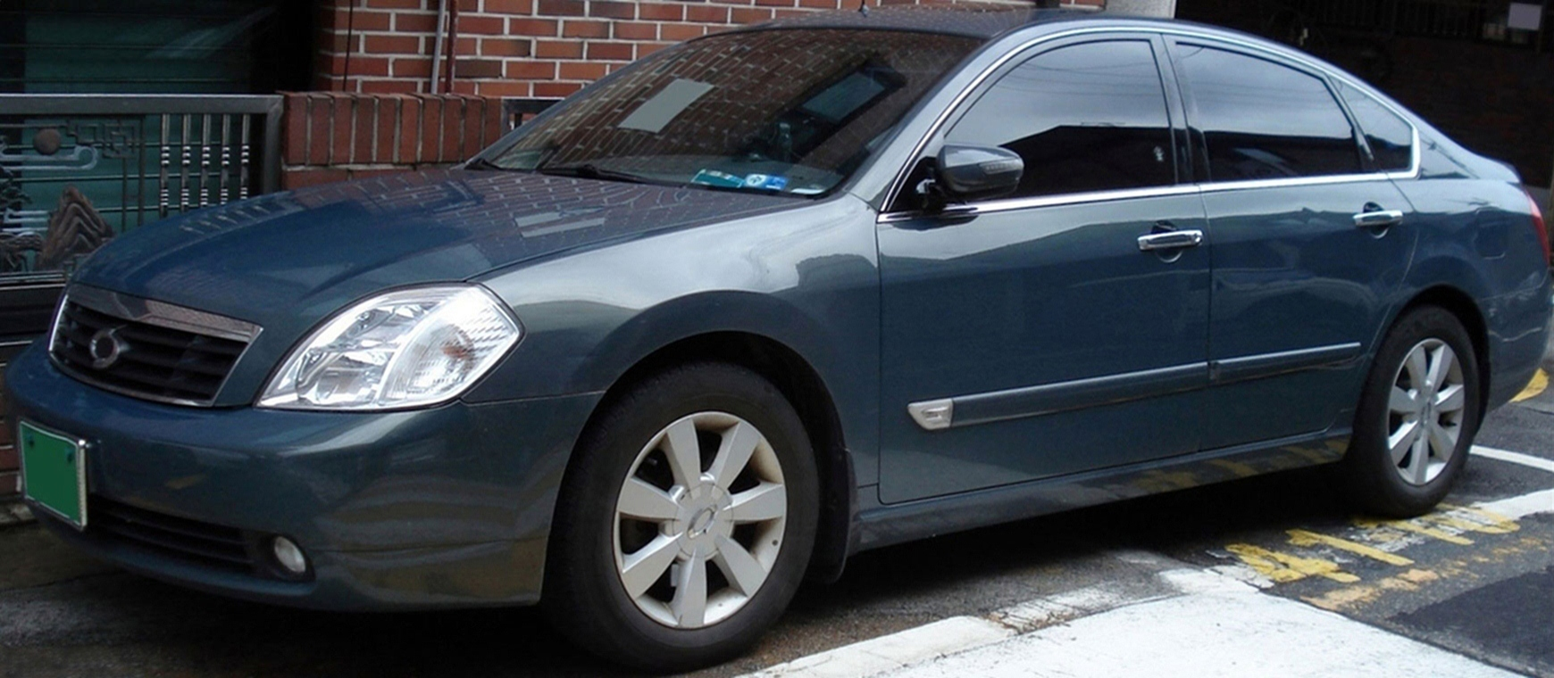 Renault Samsung New SM5